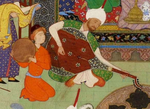 Players on Barbat and Daf from Khamse miniature